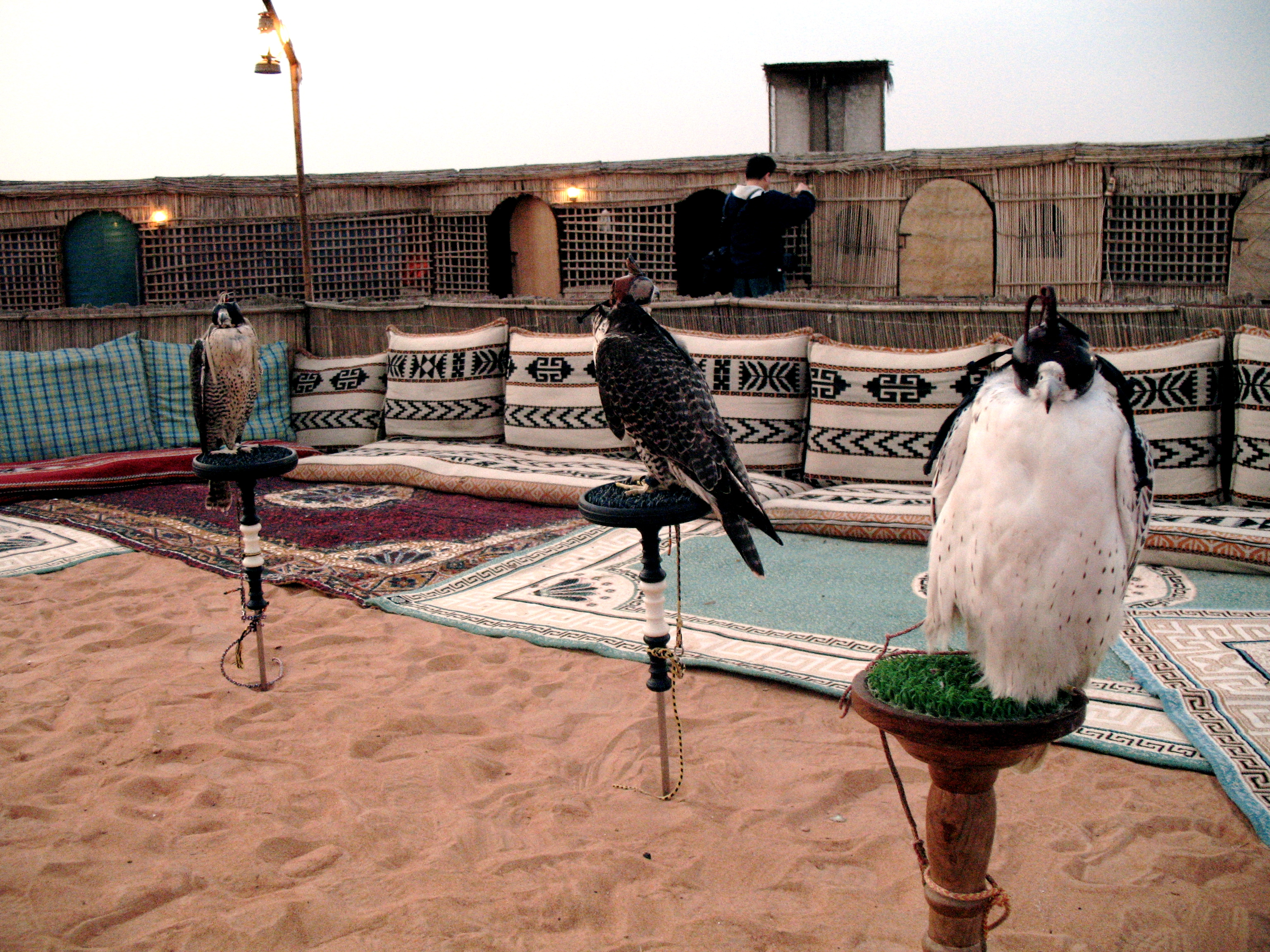 Three hooded falcons (Falco sp.) in Dubai.